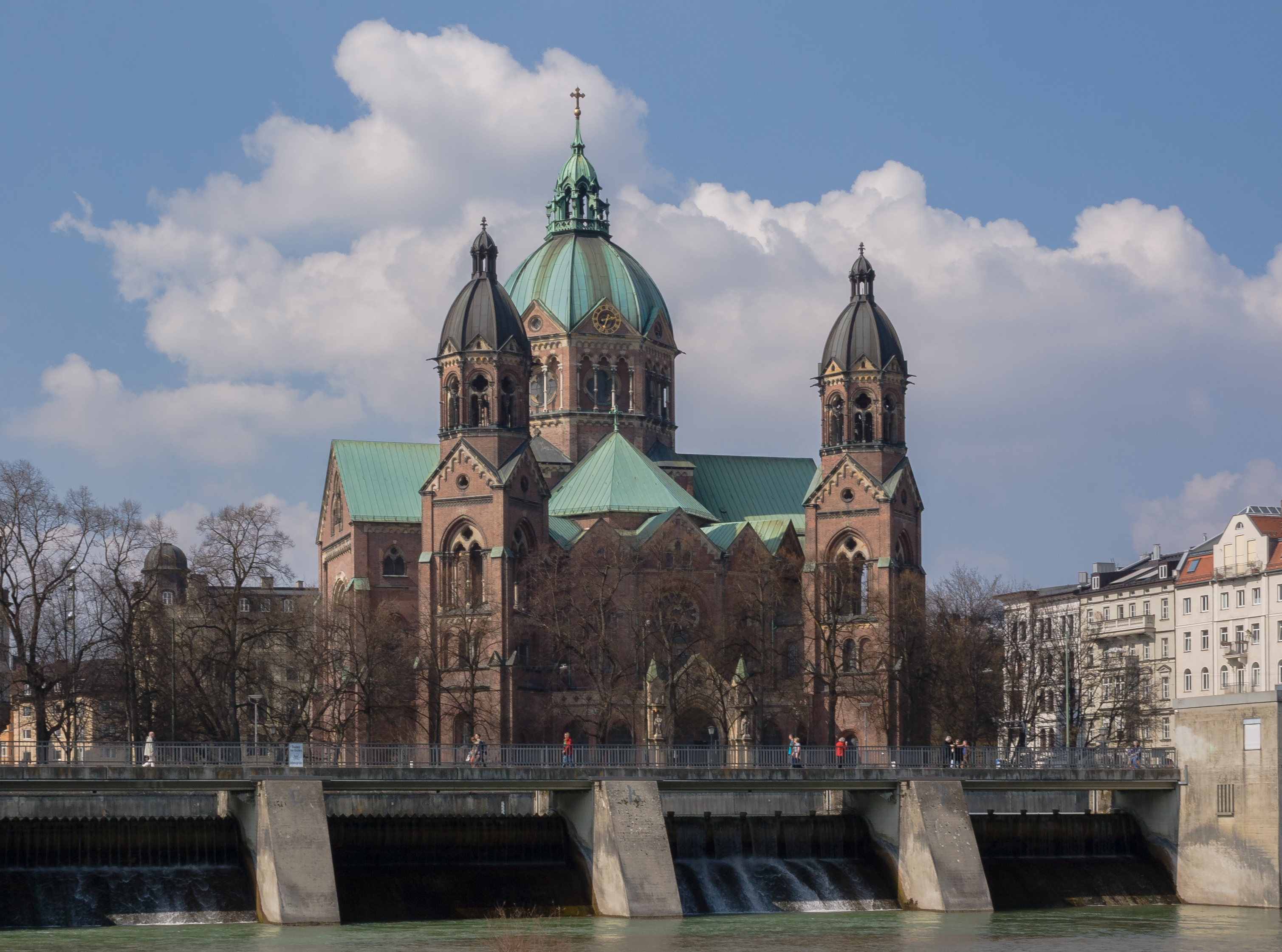 Lukaskirche, Munich, Germany